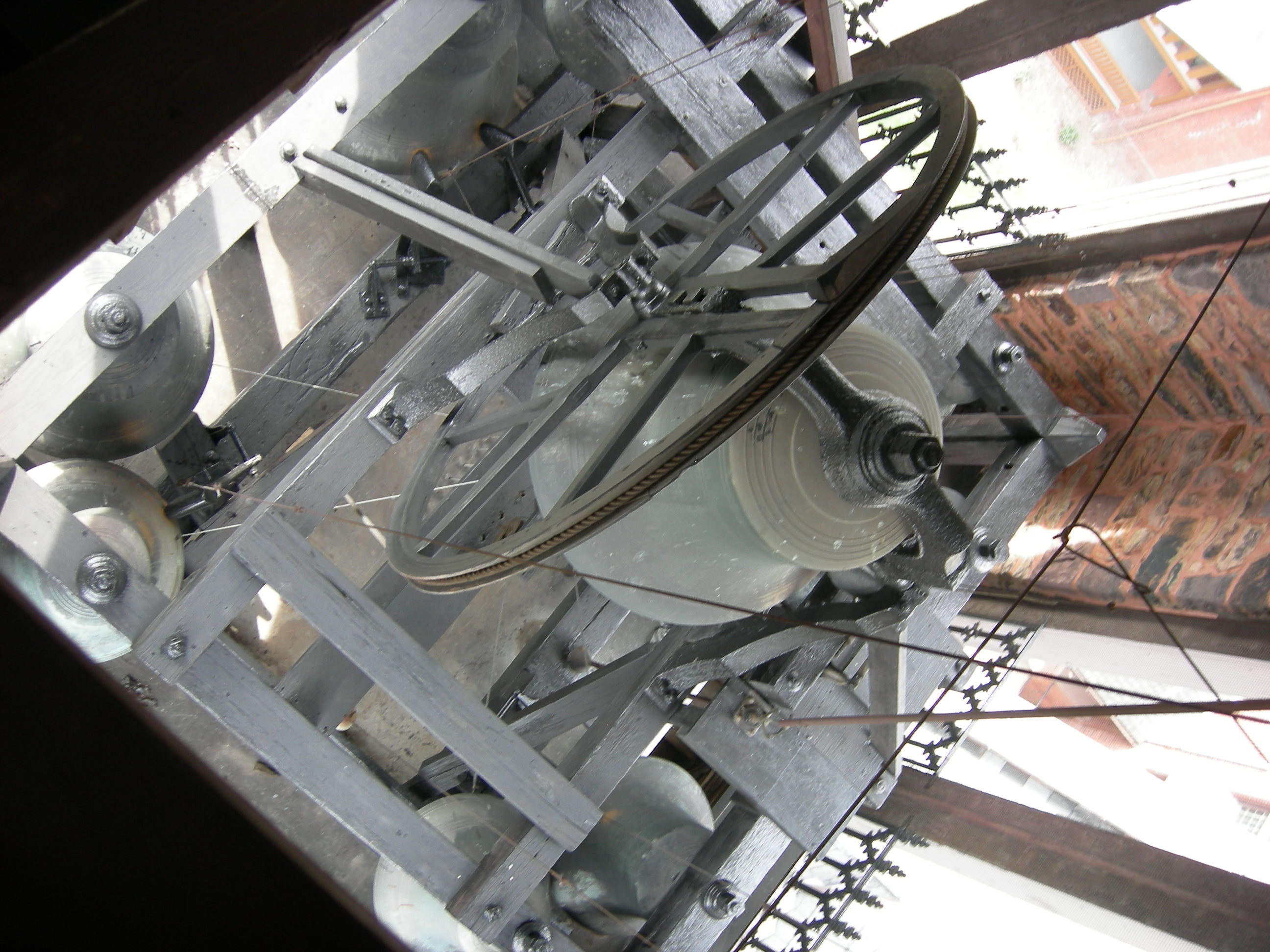 E. Howard Tower Clock at Trinity Episcopal Church, Williamsport, PA First Tower Clock in the USA to sound the Cambridge Quarters (Westminster Chime)